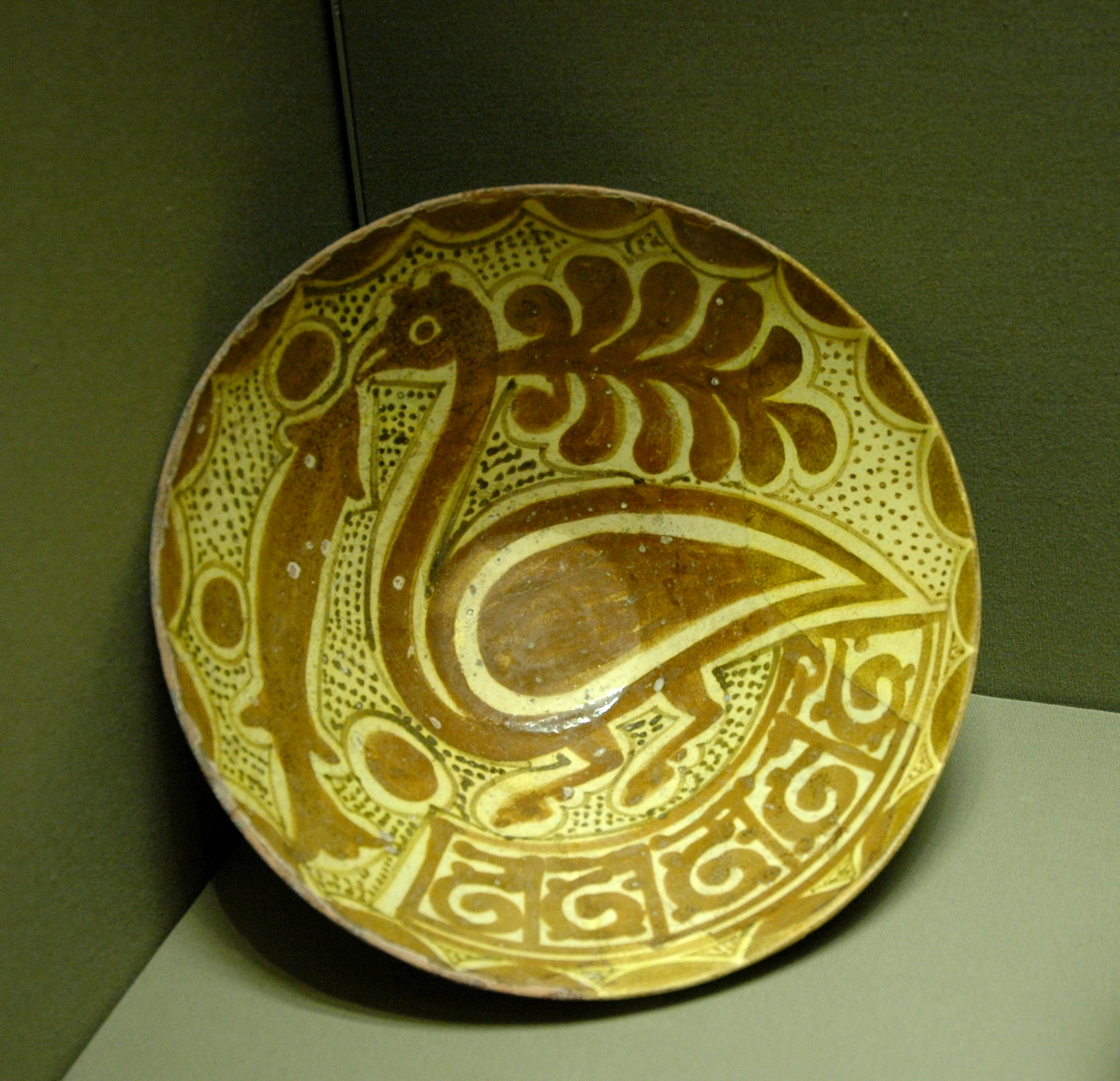 Cup with a bird, example of "pseudo-lustre", viz. the imitation by Iranian potters of metallic lustre; yellow, brown or green slip was used to that end. Slipped earthenware with slip and pigments decoration, undeglaze painted. Khurasan, Iran, 10th–11th century.